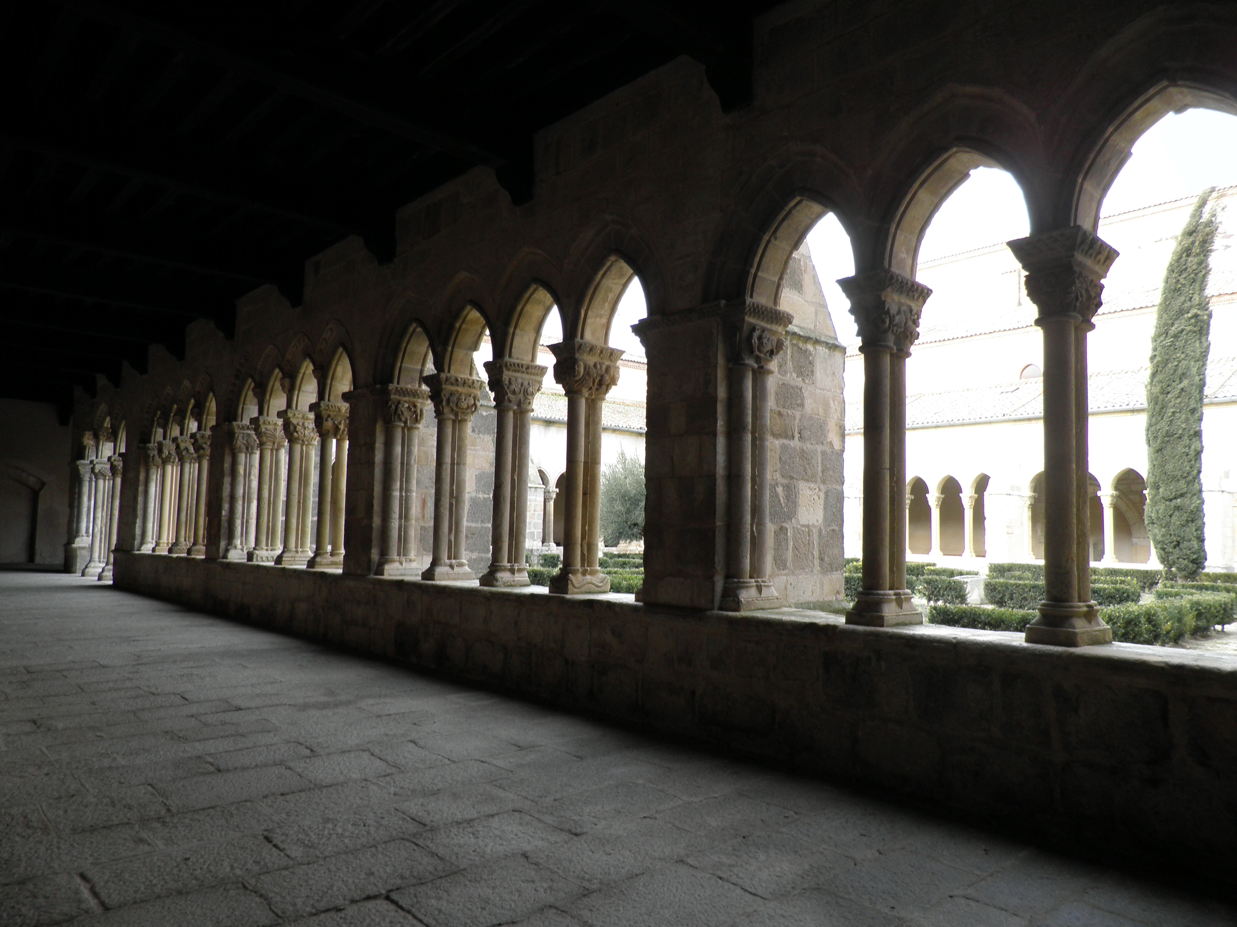 Southern corridor of the cloister in Santa Maria la Real de Nieva monastery, Segovia province, Spain.